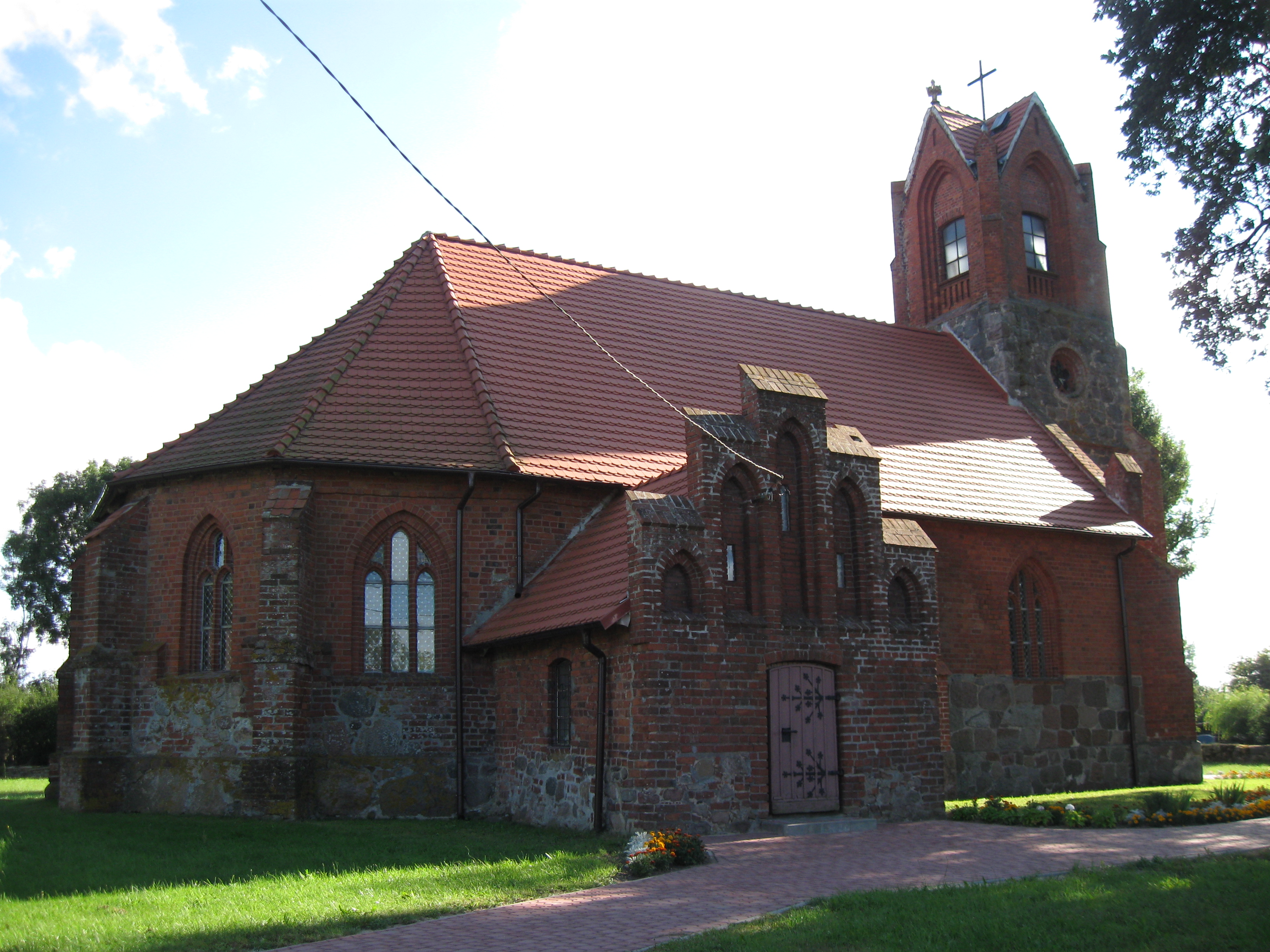 Christ the King church in Bielikowo, Poland